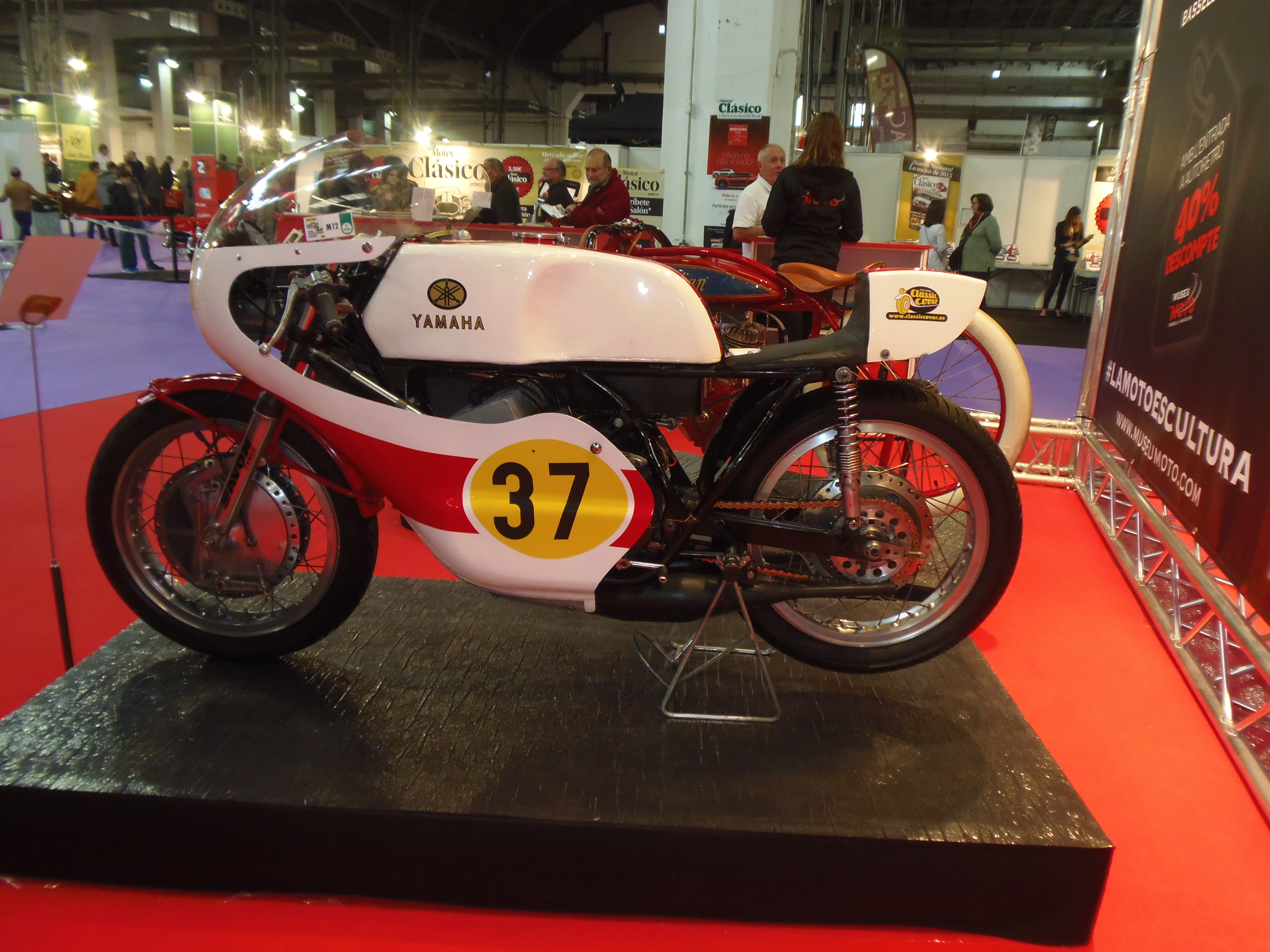 Yamaha YZ634A, 353 cc, 1972. Arrangement of the Yamaha TD350 for the 500cc category. Ridden by Chas Mortimer, it was the first Yamaha to win a Grand Prix, specifically the Spanish GP held on 23 September 1972 at the Monjuïc Circuit.